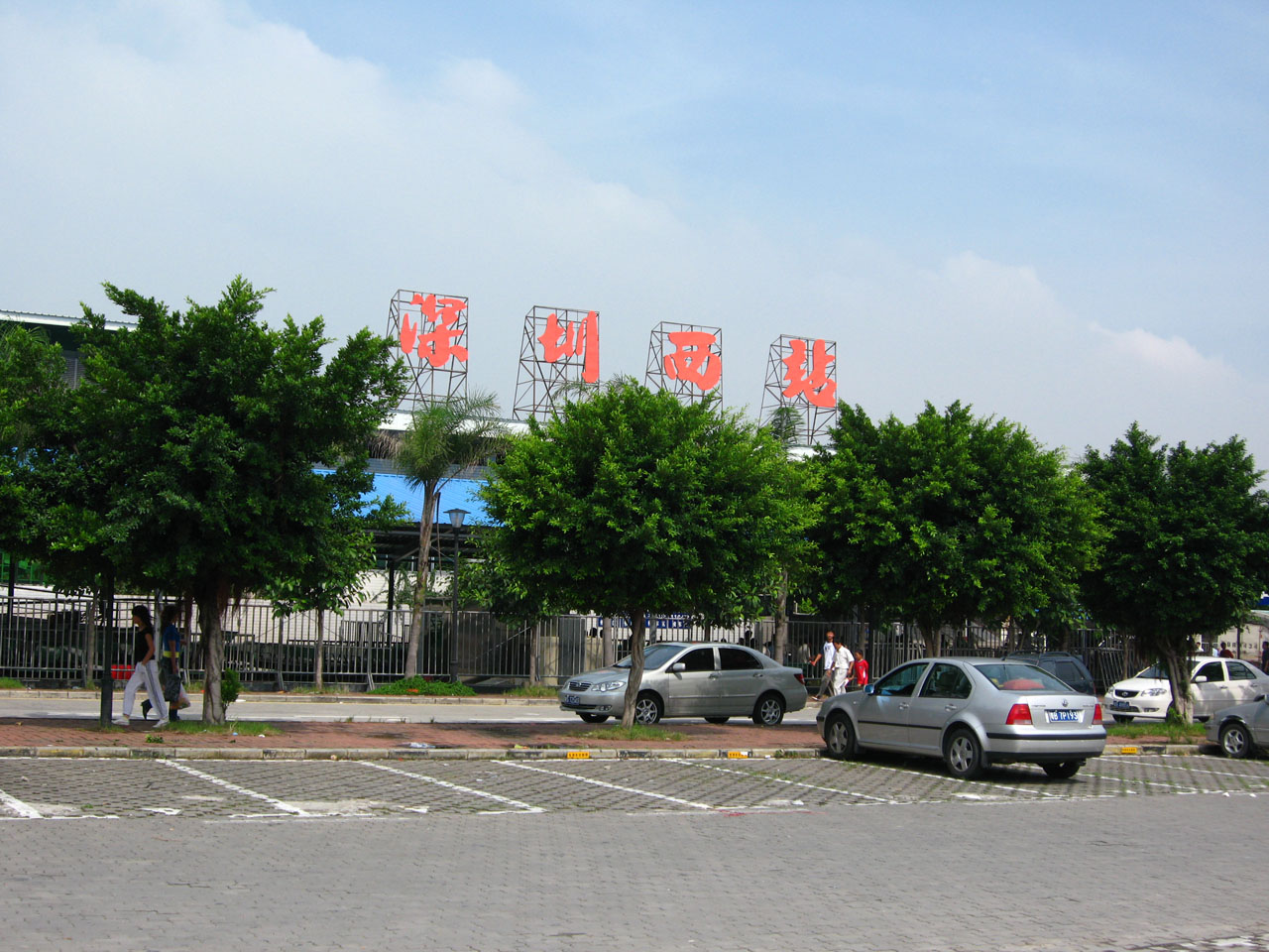 Shenzhen West Railway Station